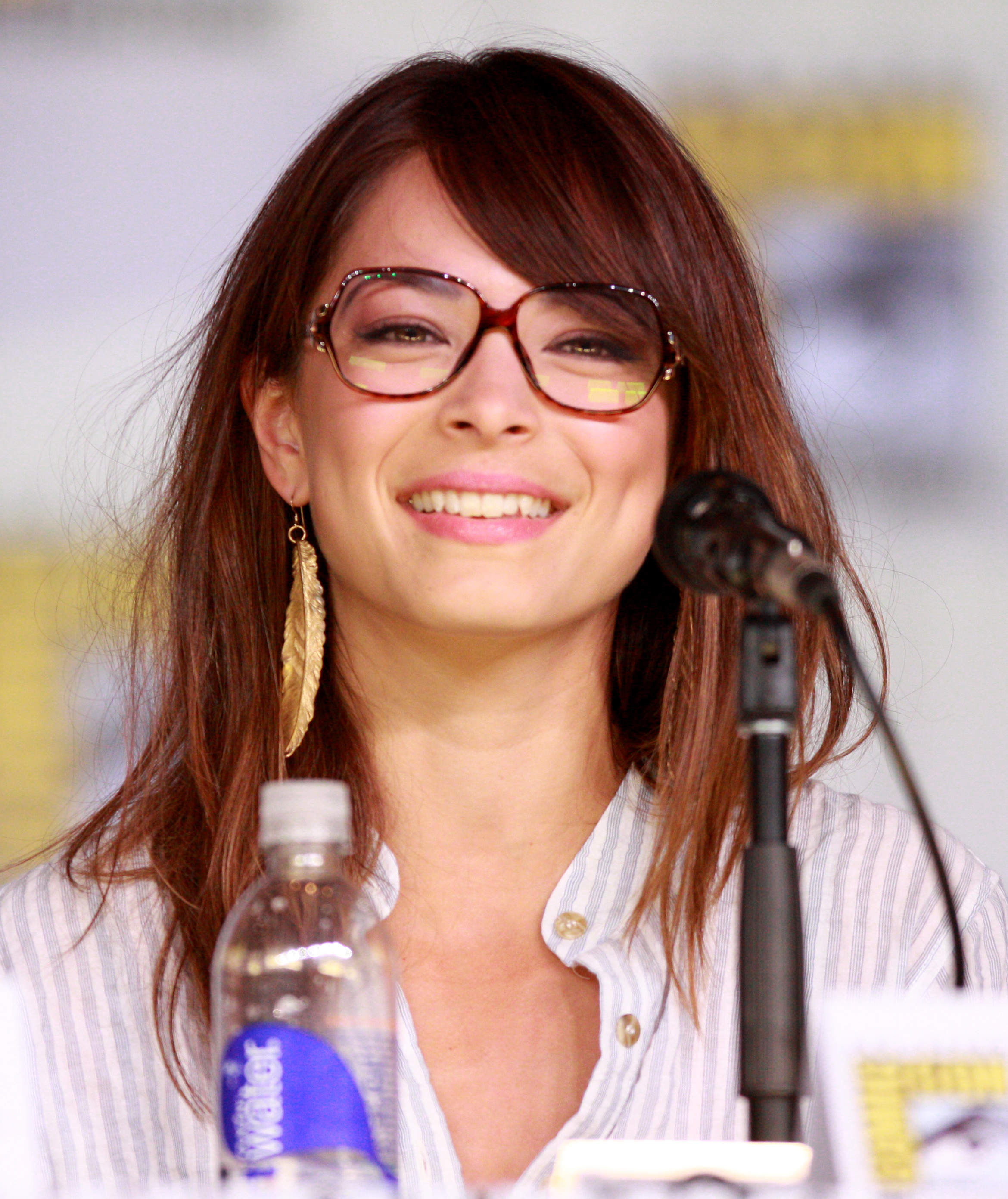 Kristin Kreuk at the 2013 San Diego Comic Con International in San Diego, California.